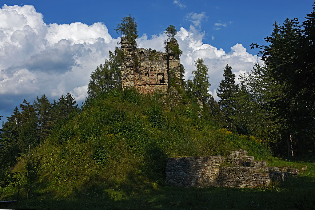 On a steep hill, close to the ex trade route, the ruins of castle Vodriž are still seen.